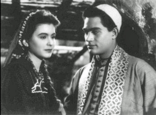 A shot from the movie Hassan and Nayima (1959)